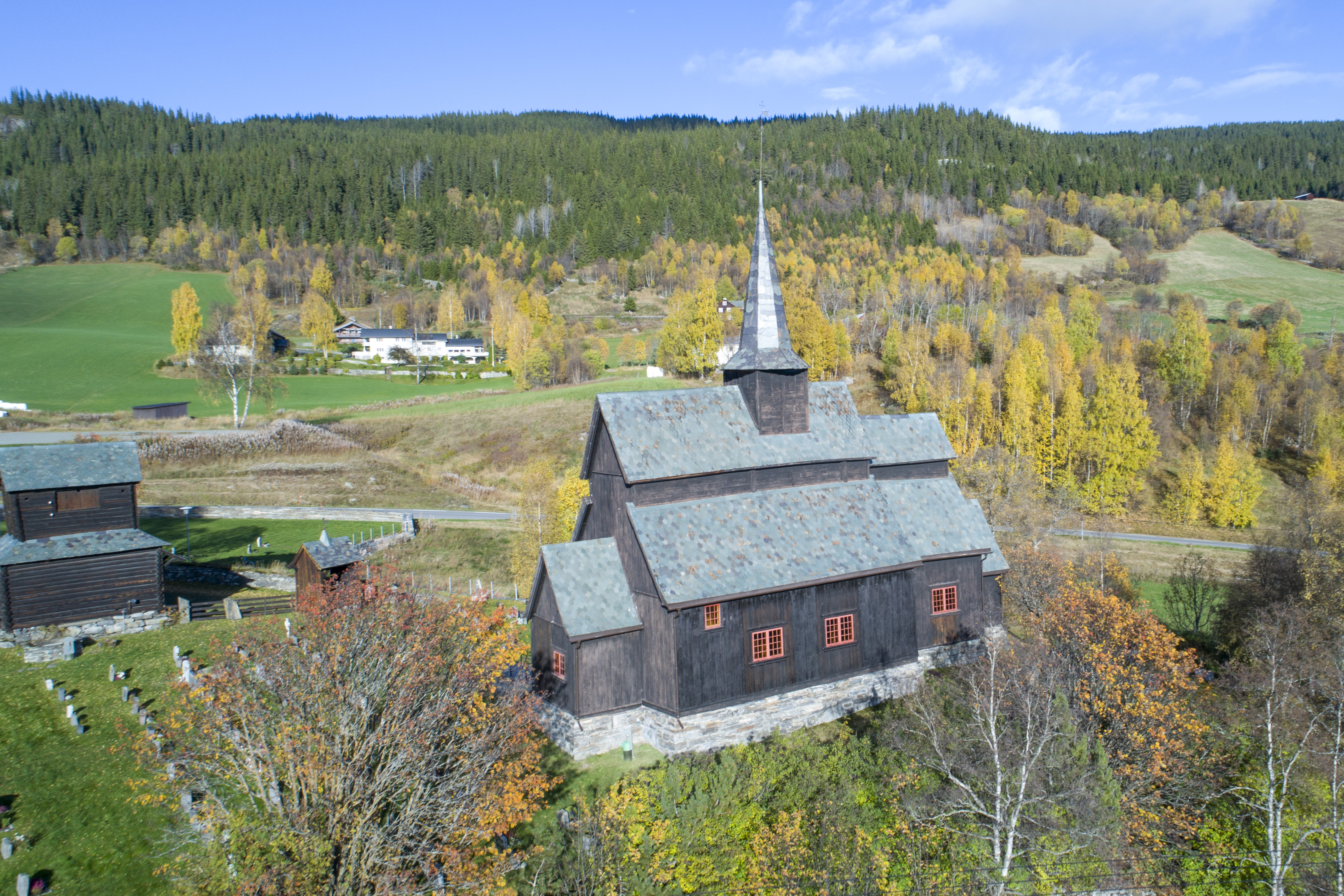 A drone photo of Høre stave church